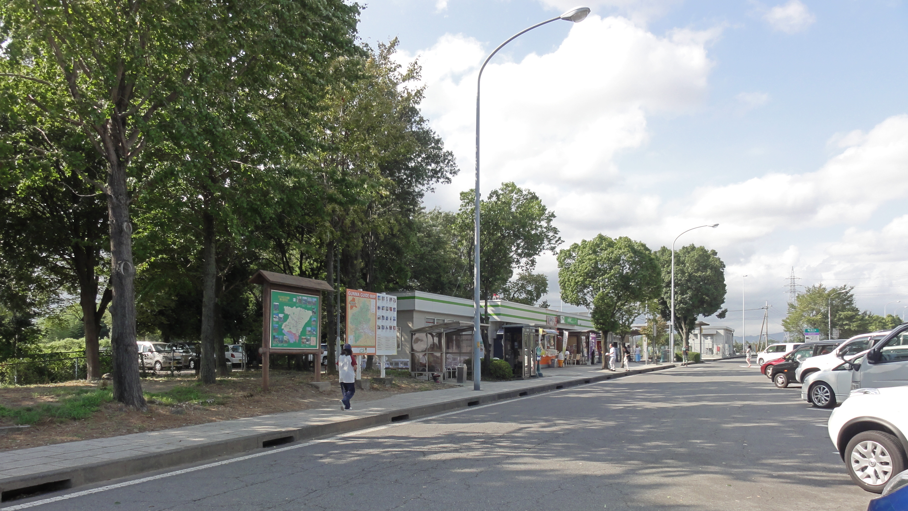 Komayose Paking Area,Gunma prefecture, Japan